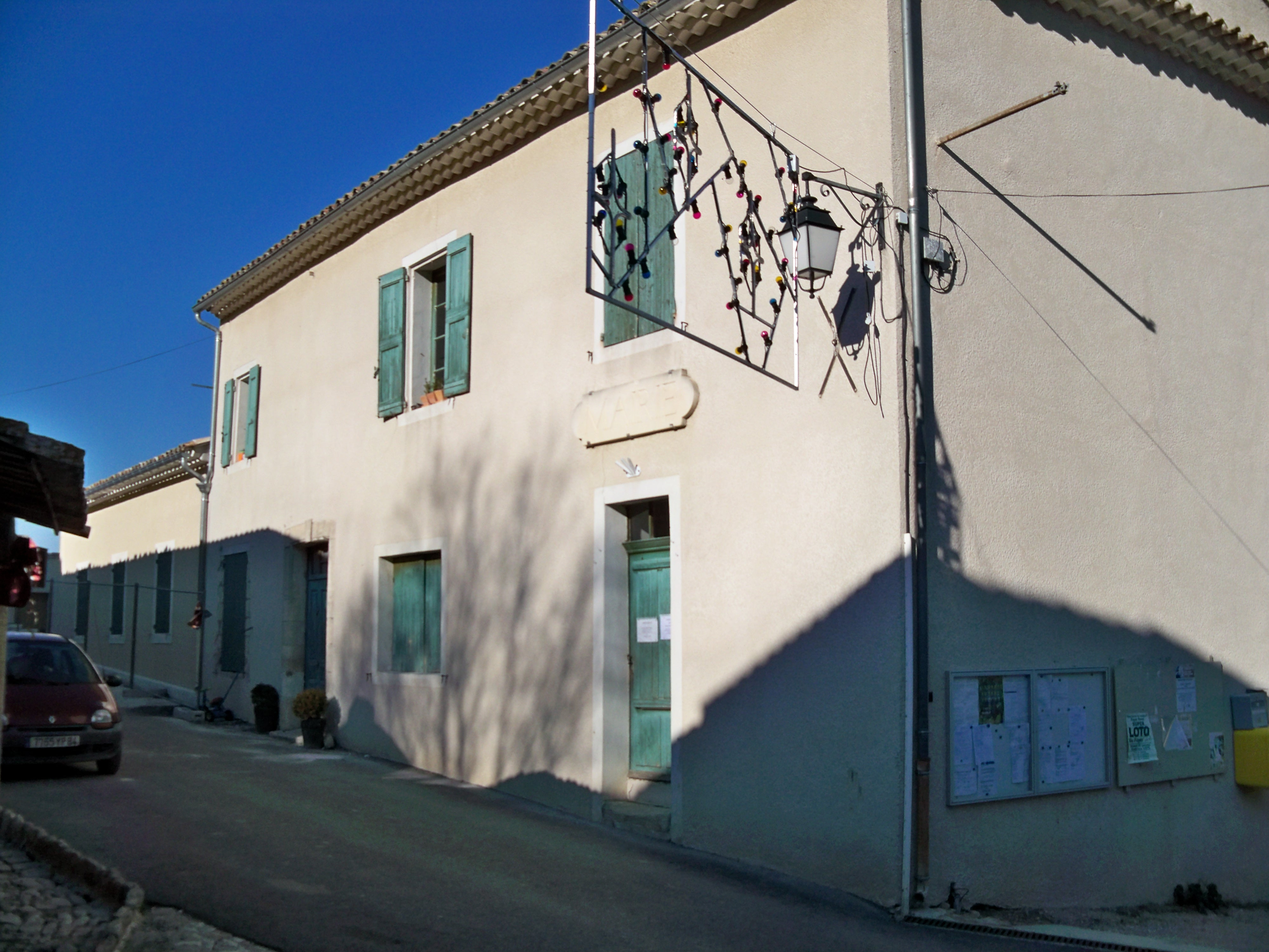 Castellet-en-Luberon's town hall (Vaucluse, France)